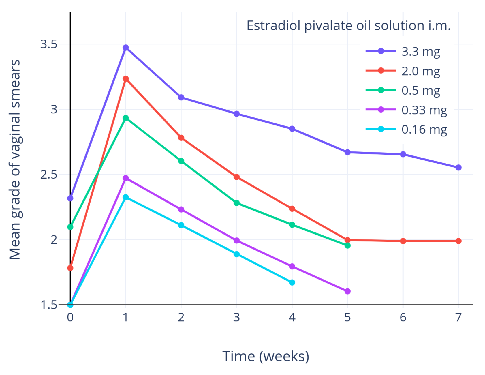 Mean change in vaginal smear test grade with different doses (0.16 mg, 0.33 mg, 0.5 mg, 2.0 mg, 3.3 mg) of estradiol pivalate (Estrotate) in oil solution by intramuscular injection in women with atrophic vaginal smears. There were 10 to 20 women in each dose group. Source of the values: (August 1949). "The use of the human vaginal smear in the assay of estrogens". J. Clin. Endocrinol. Metab. 9 (8): 725–35. PMID 18133489.